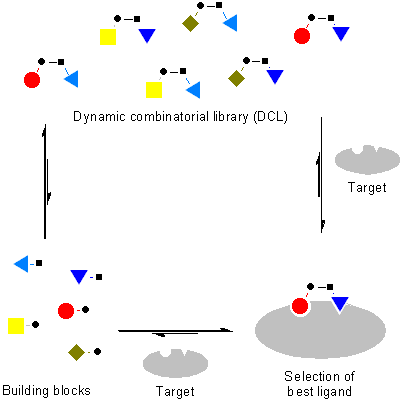 Scheme describing the basis of protein-directed dynamic combinatorial chemistry